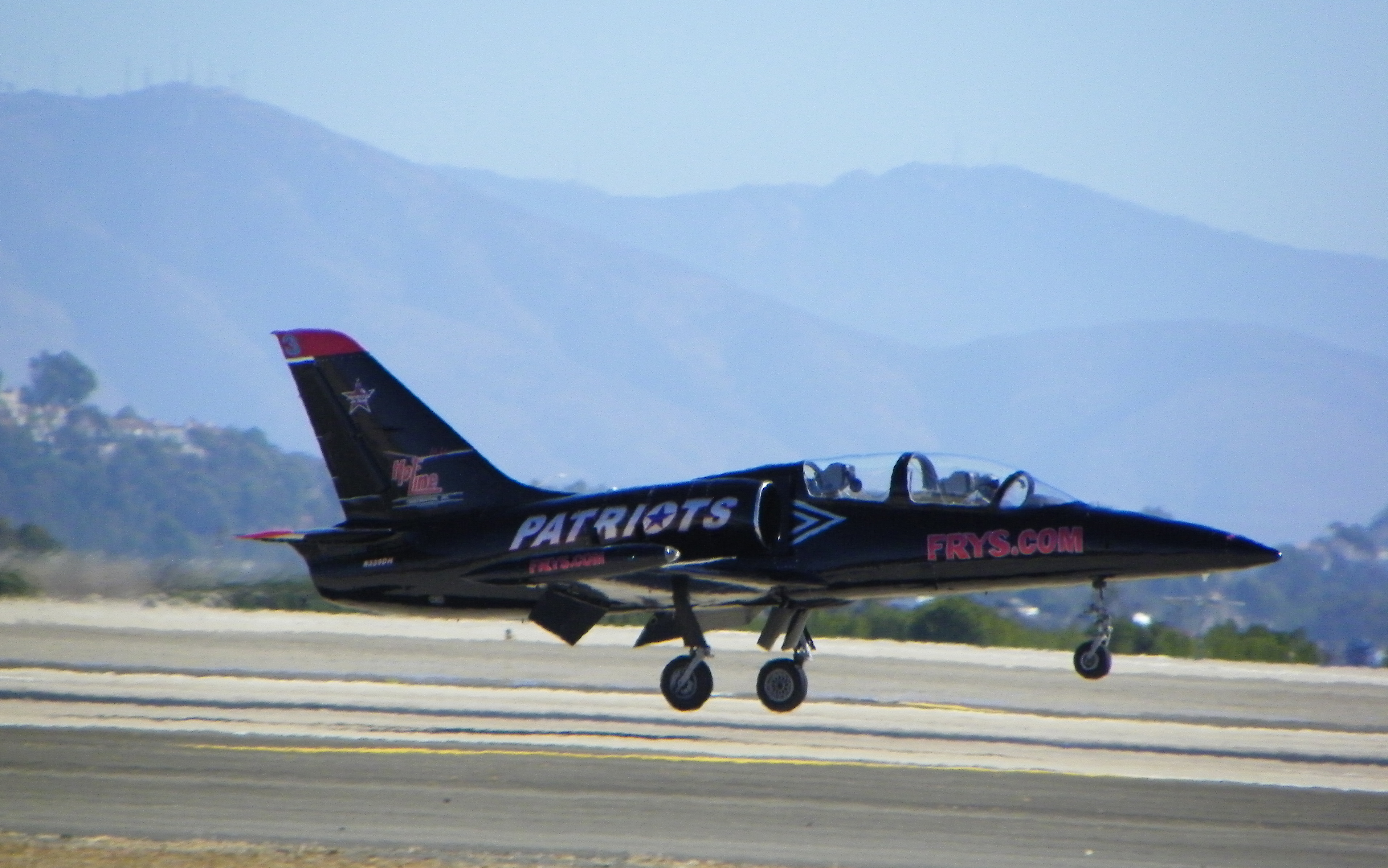 An Aero L-39 of the Patriots L-39 Jet Team landing during the Miramar Air Show.